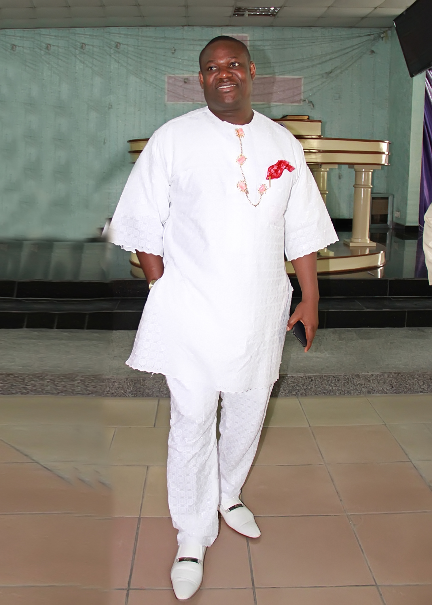 Deputy Governor of Rivers State, Engr. Tele Ikuru